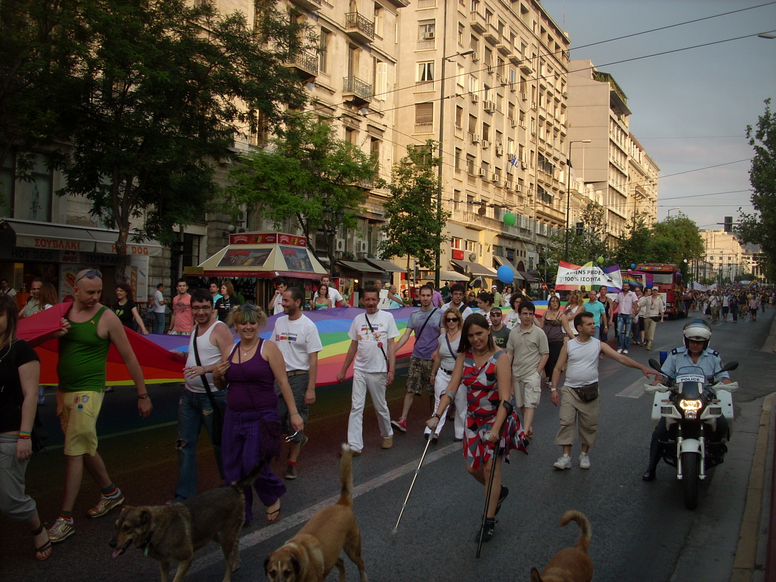 Athens Pride 2009